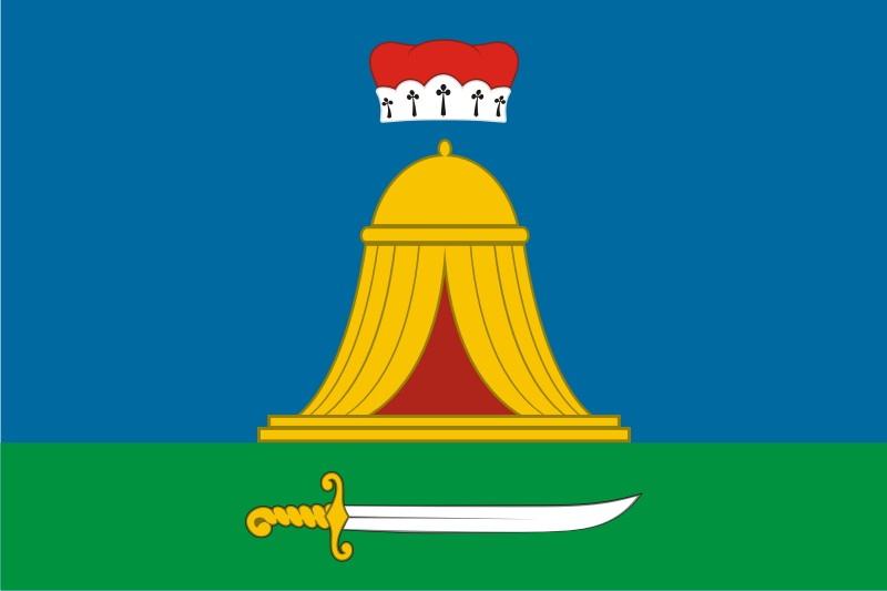 Tabory (Sverdlovsk oblast), flag